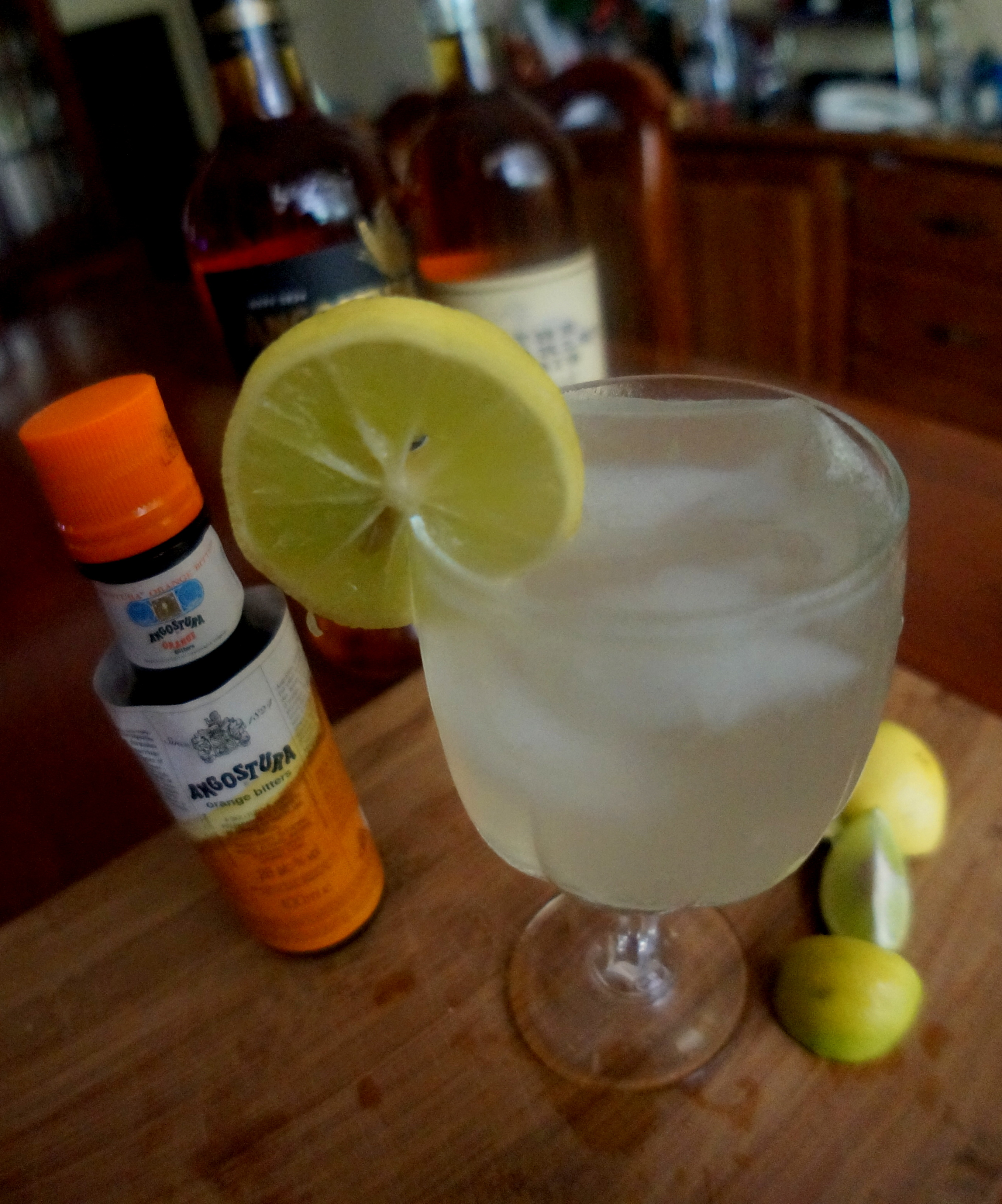 A classic Daiquiri made with white rum, lime juice, simple syrup and orange bitters. Link to same drink different angle